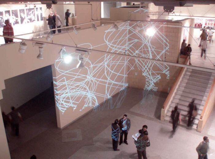 Maurizio Bolognini, interactive installation at Art Palace, Cairo